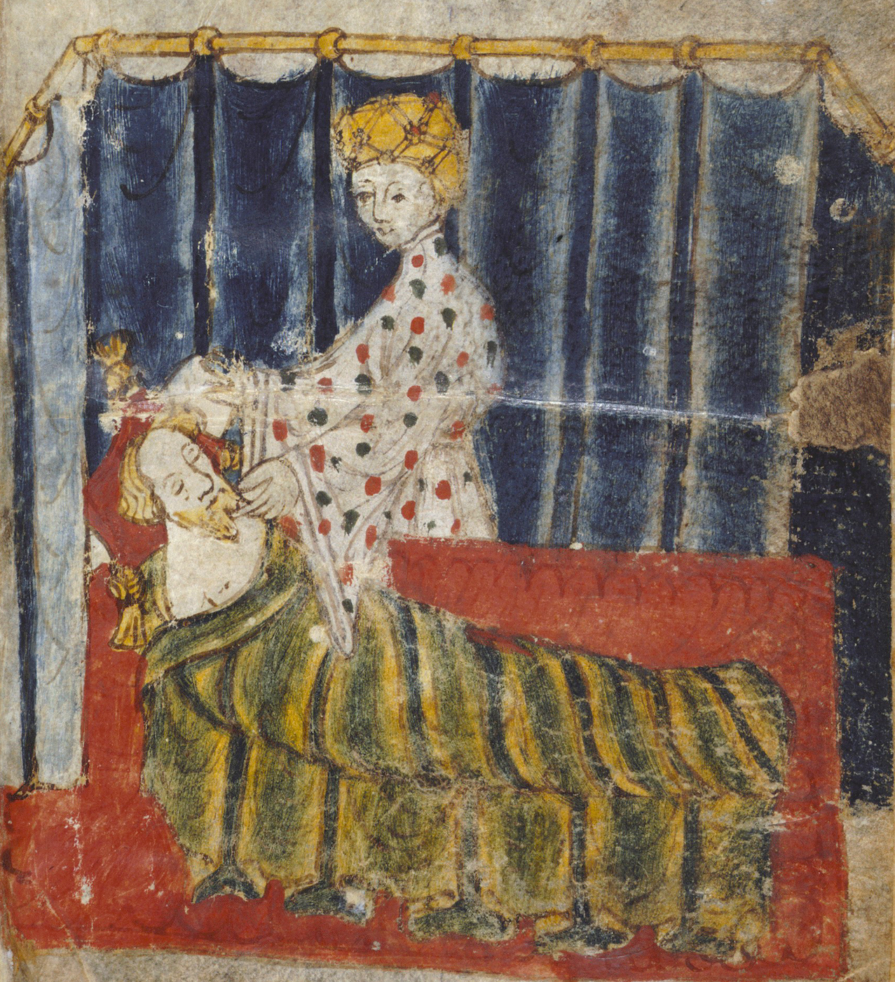 Temptation of Sir Gawain by Lady Bercilak: Cotton Nero A. x, f. 129